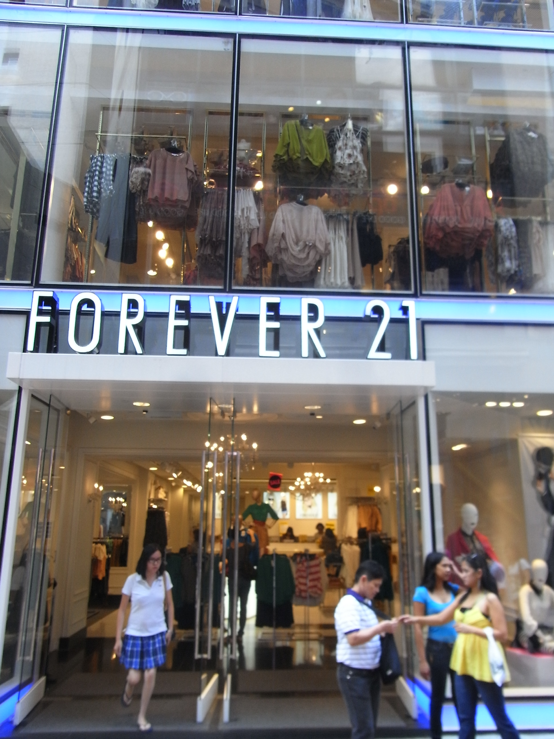 銅鑼灣渣甸坊 京華中心 FOREVER 21 clothing shop, Capitol Centre, Jardine's Crescent, Causeway Bay, Hong Kong